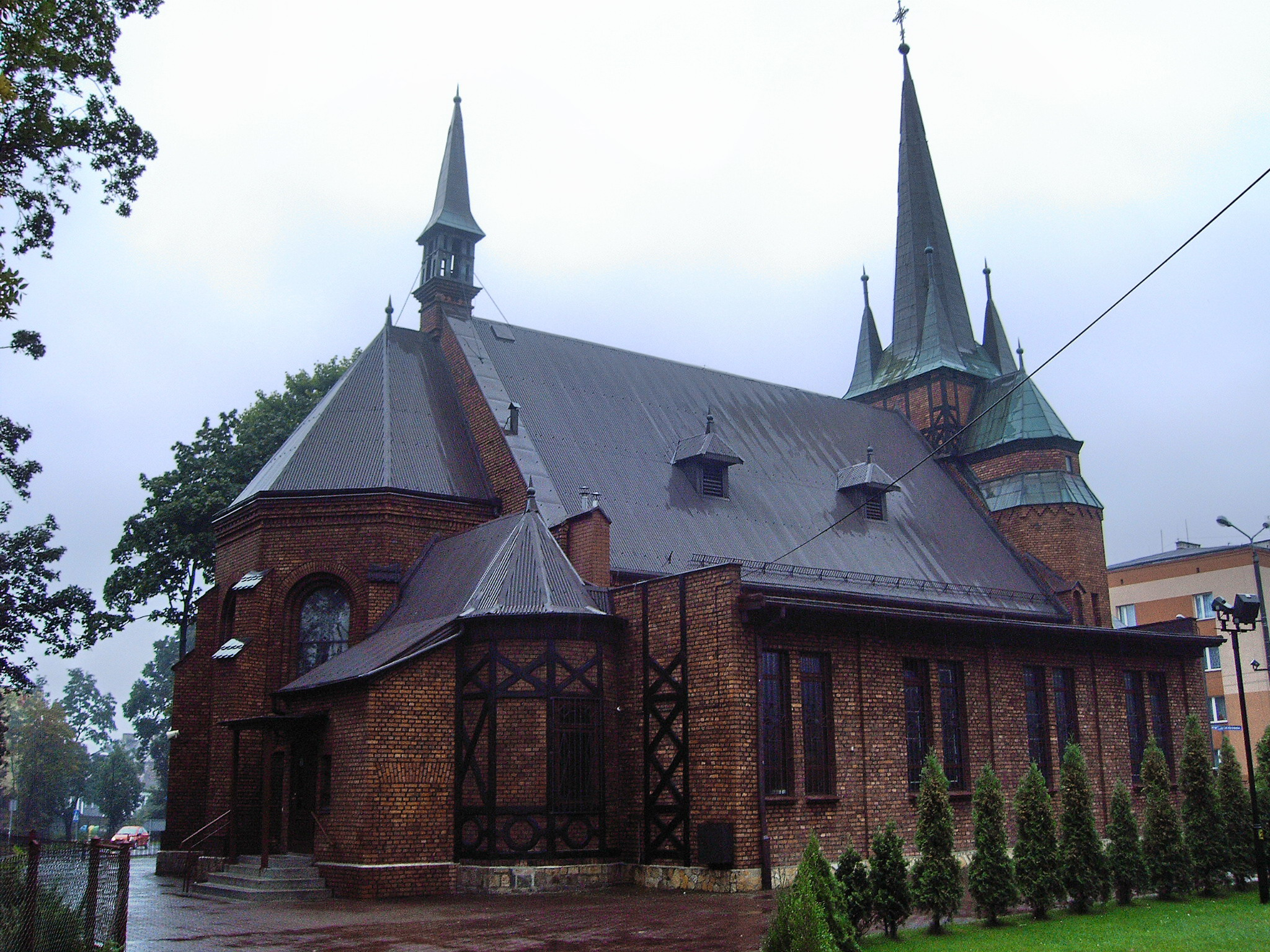 The roman-catholic Church in Halemba